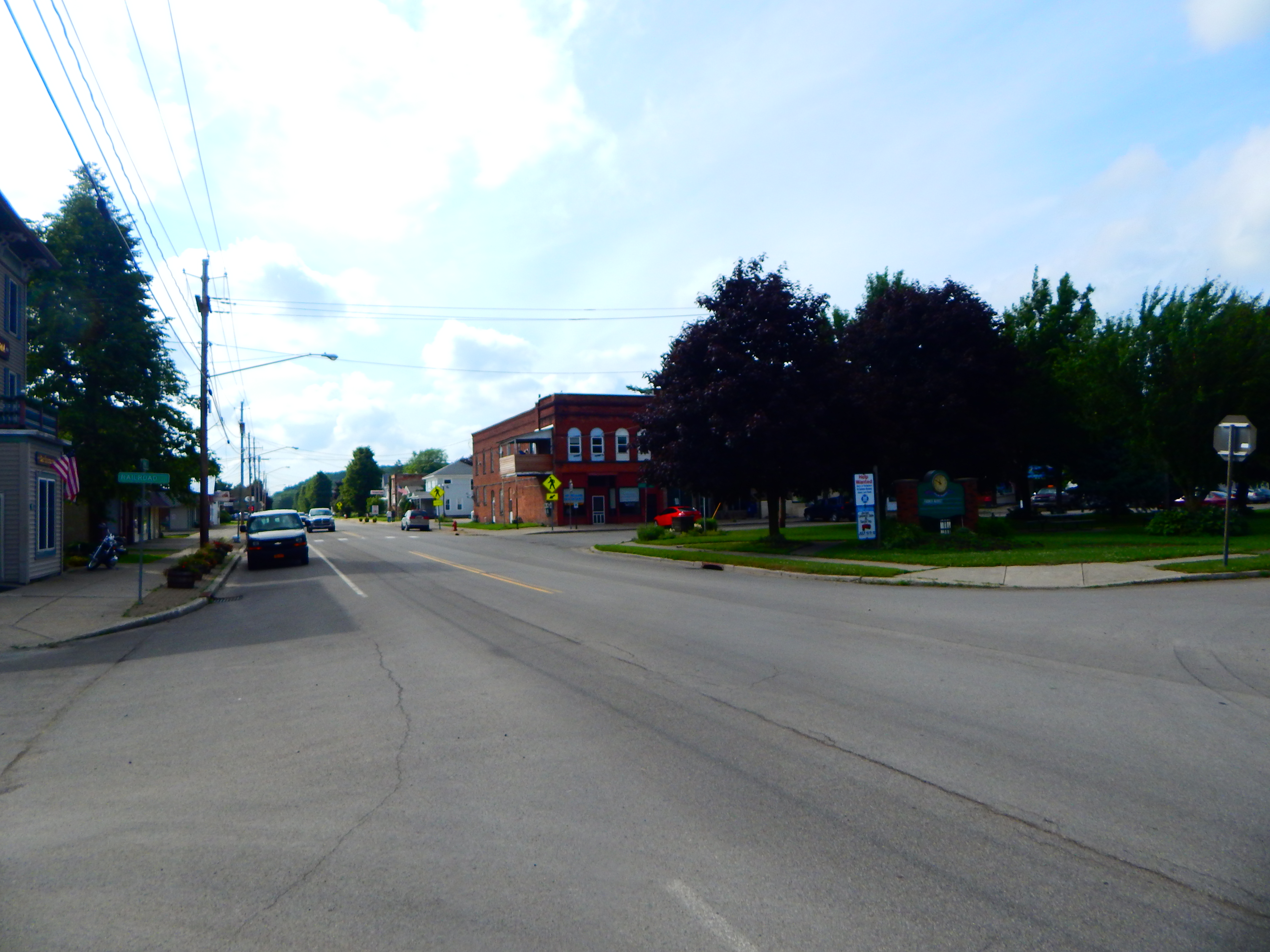 NY 322 heading through South Dayton, New York.